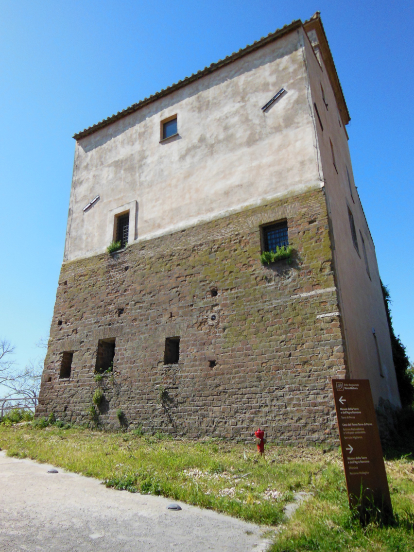 Tower of Perna in the Park of Decima Malafede in Rome